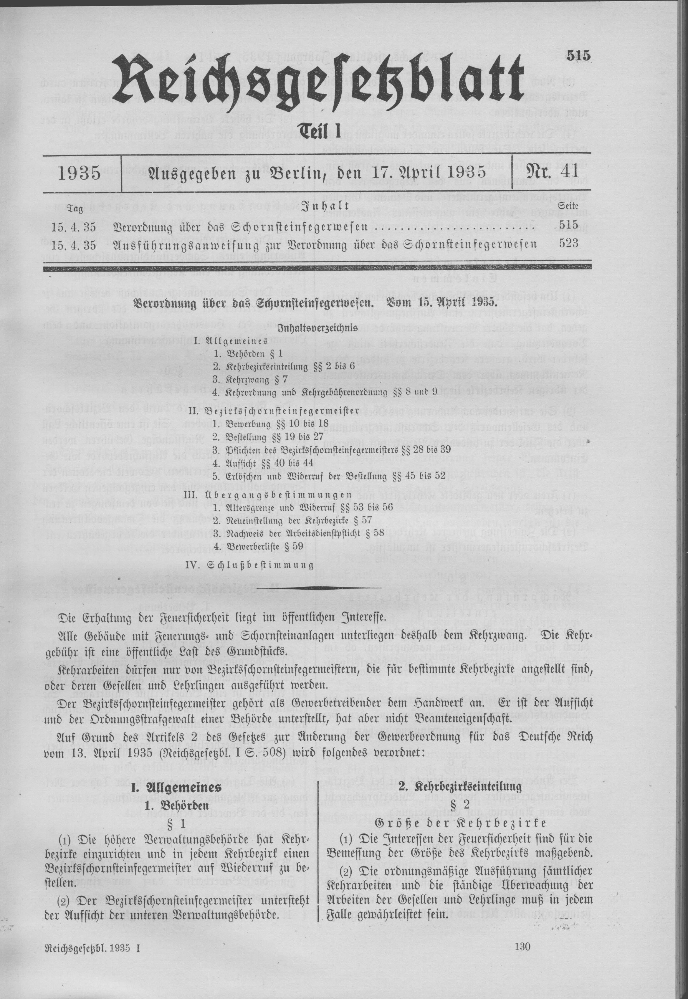 Scan from the Imperial Law Gazette of Germany, 1935, part 1